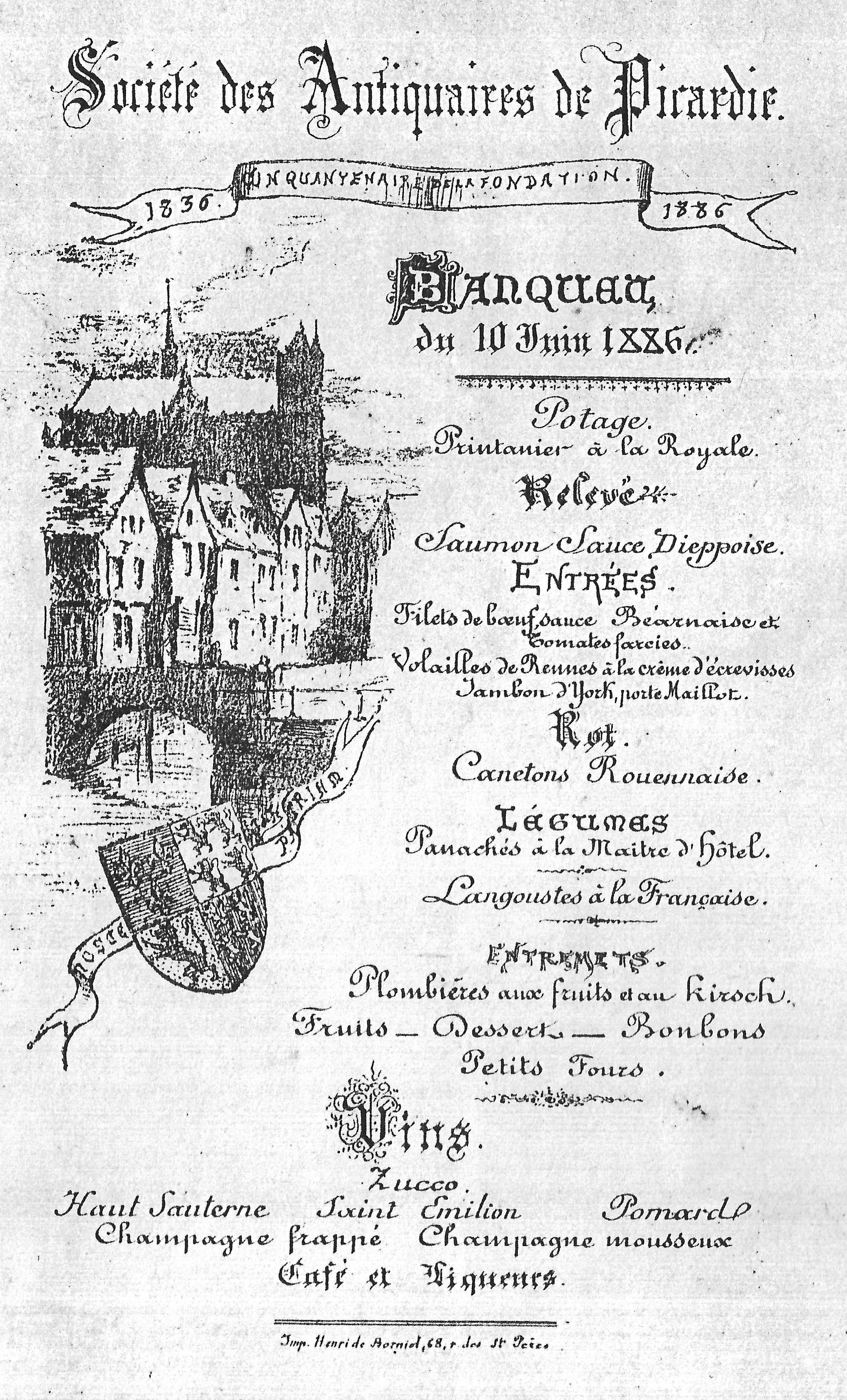 Menu 3 avec dessin de Jean de Francqueville